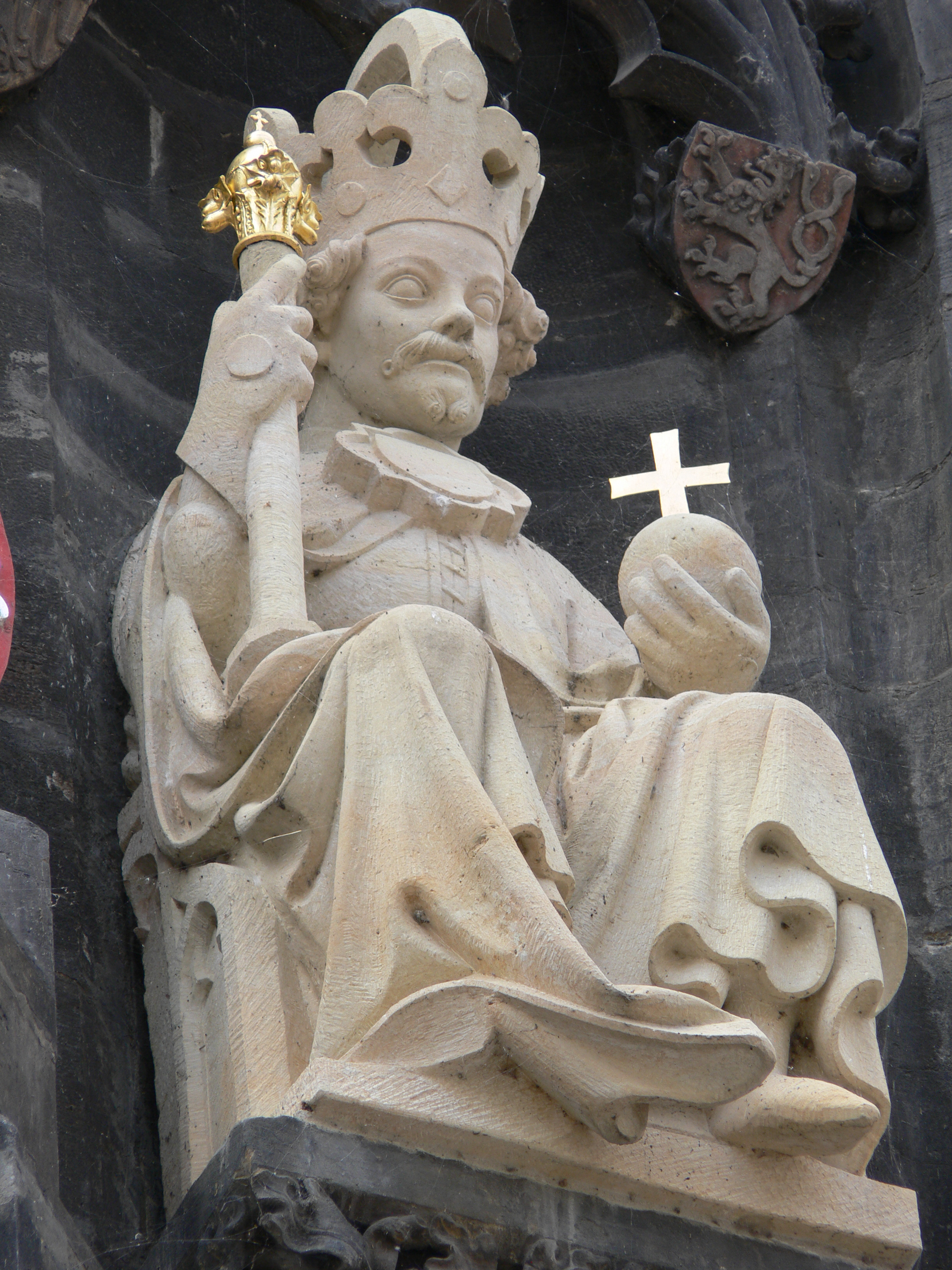 Wenceslas IV, a statue on the Old-Town Bridge Tower by the Charles Bridge in Prague, CZ